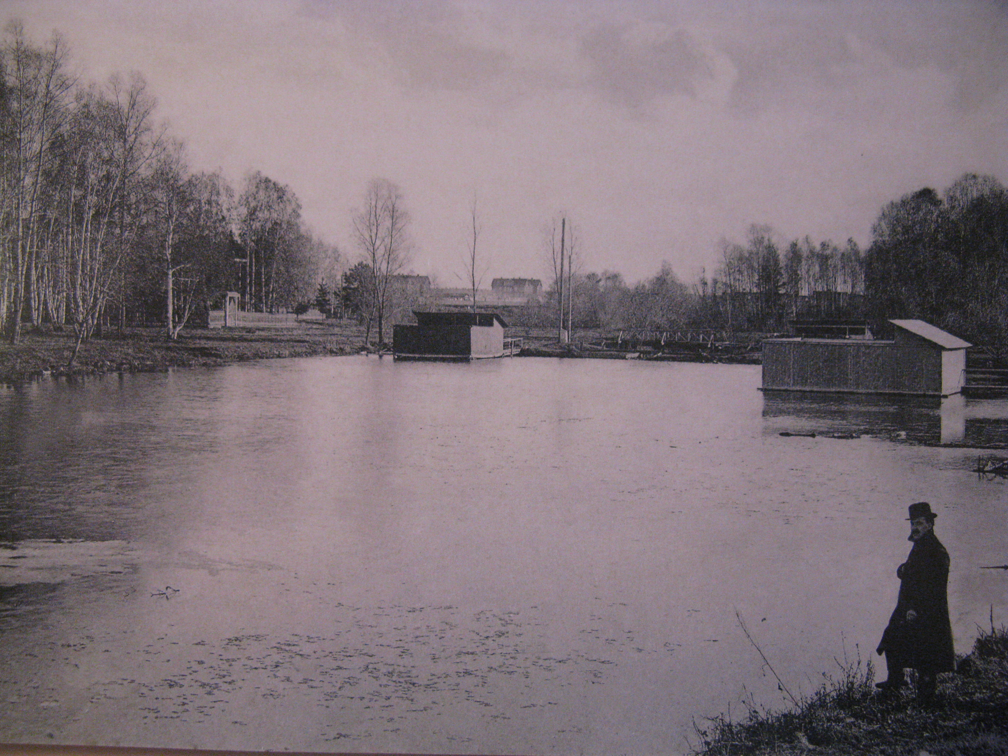 Челноковский парк с прудом